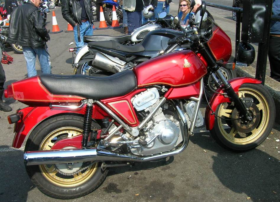 2007 Ace Cafe V1000 model with Marzocchi Strada rear suspension units